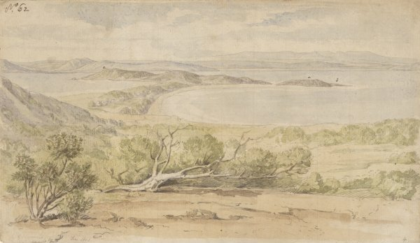 King George's Sound, View from Peak Head, a 15.7 x 27cm pencil-and-wash 1801 field sketch by William Westall. It depicts King George Sound on the south coast of Western Australia. Specifically, it is a view looking north-north-west from Peak Head, across Torndirrup and Vancouver Peninsula towards the mainland. The shrubs in the foreground are probably Anthocercis viscosa (left) and Banksia verticillata (centre). This field sketch was the basis for Westall's 1809–1812 oil-on-canvas painting Part of King George III Sound, on the South Coast of New Holland, December 1801, which was later engraved as View from the south side of King George's Sound.